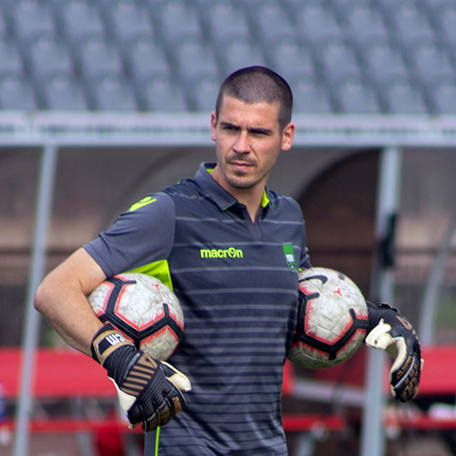 Colm Vance during pregame preparations for York9 FC.